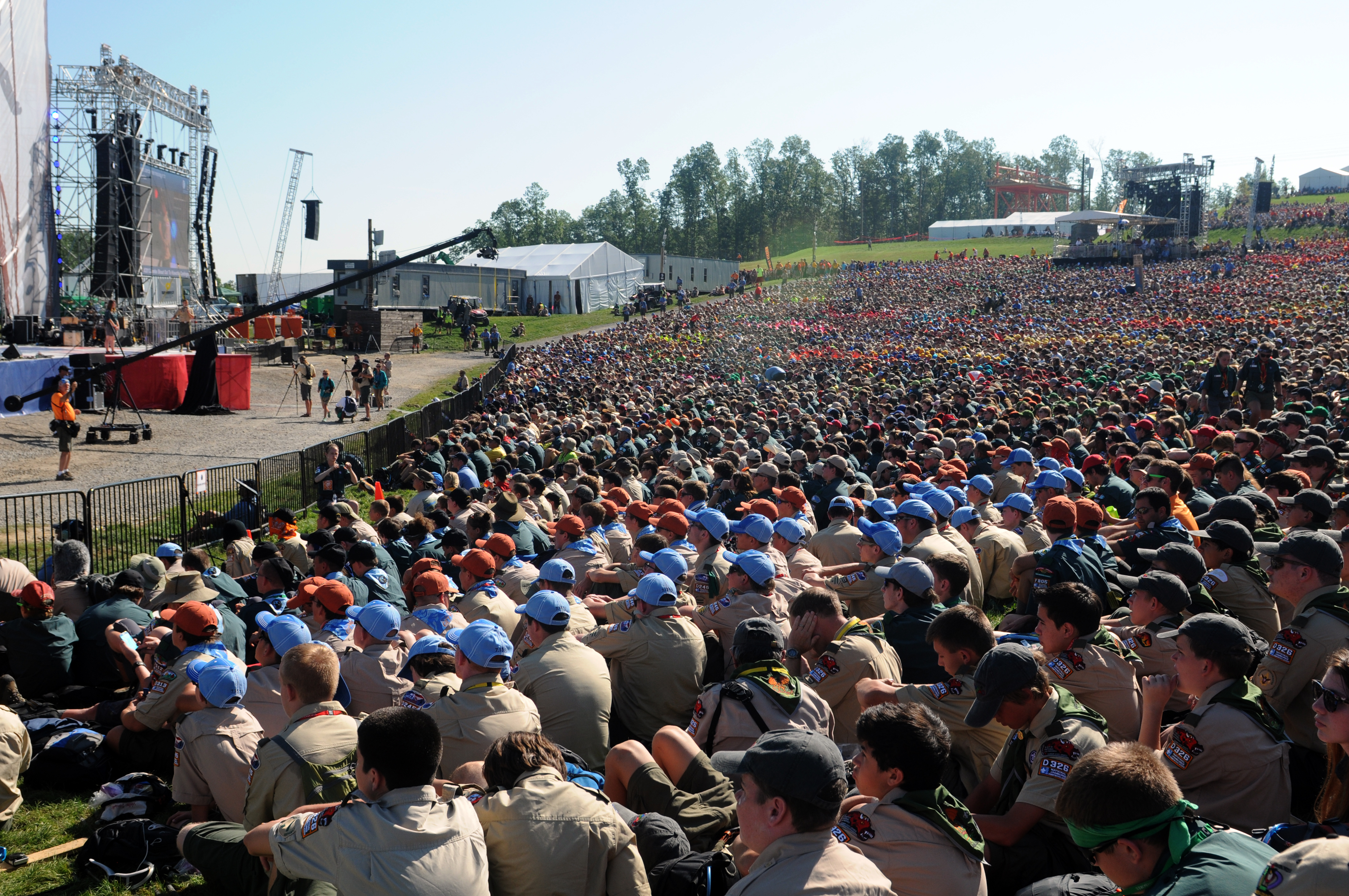 Thousands of scouts gathered for the opening ceremony event of the 2013 National Boyscout Jamboree, held at the Summit Bechtel Family National Scout Reserve July 16. (U.S. Army photo by Spc. Penni Harris)